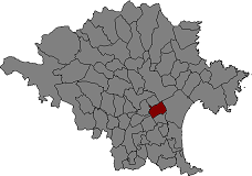 Location of Fortià in Alt Empordà